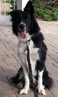 A border Collie at the age of one